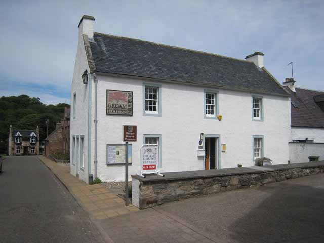 Groam House Museum, Rosemarkie A lovely little museum in the village of Rosemarkie dedicated to the Pictish associations of the area . Plough Inn in the background.